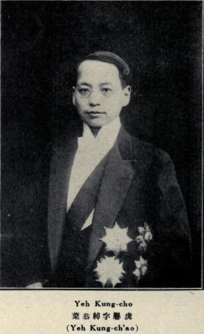 Ye Gongchuo, Yuhu (1881 - 1968)